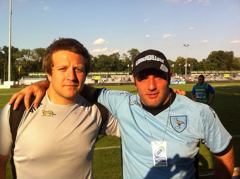 The Argentine rugby union player Francisco Piccinini and the Argentine-born Uruguayan player Alejo Corral in Bucharest at the 2012 IRB Nations Cup